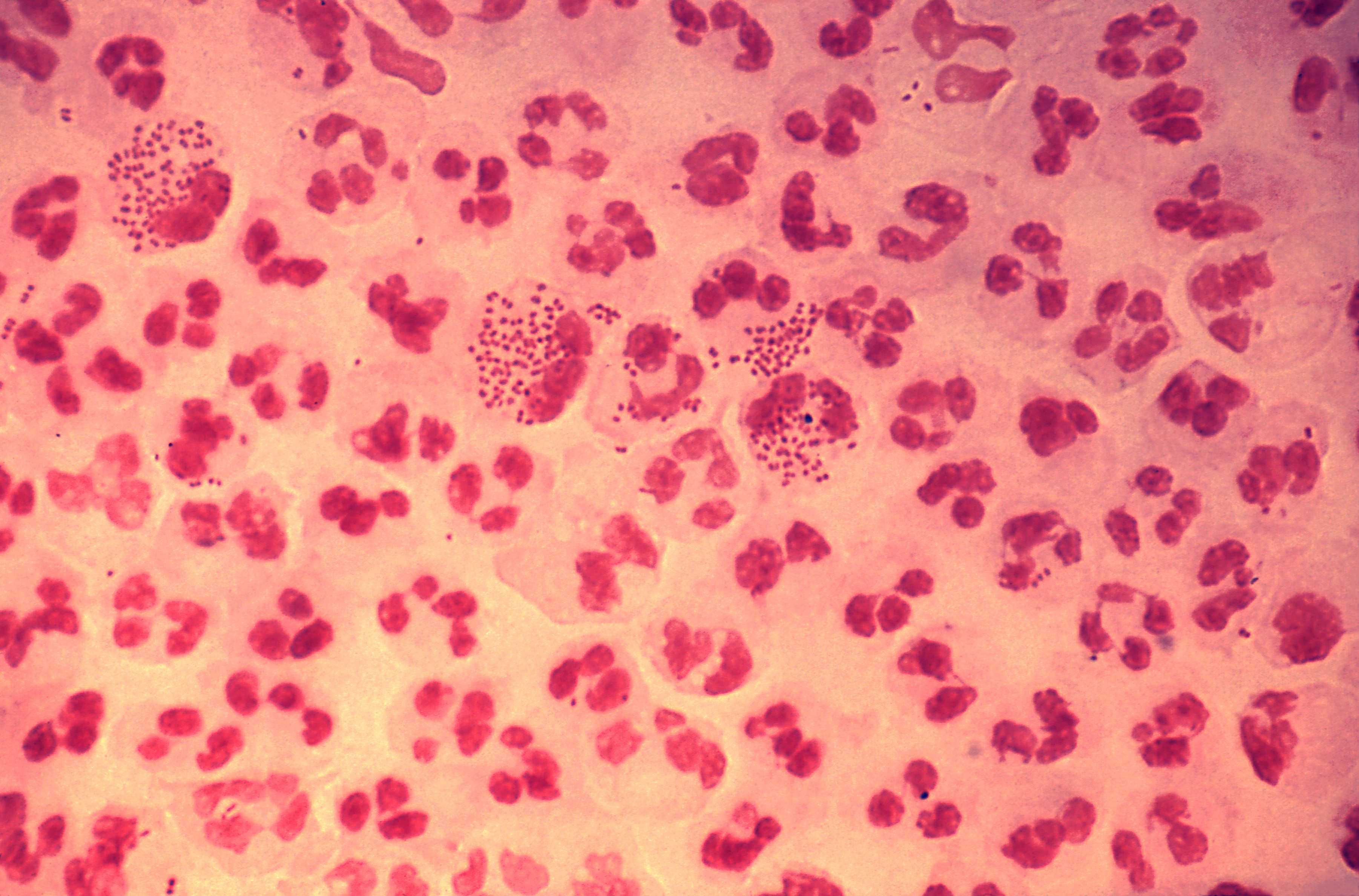 This low-resolution photomicrograph reveals the histopathology in an acute case of gonococcal urethritis using Gram-stain technique. This slide is used to demonstrate the non-random distribution of gonococci among polymorphonuclear neutrophils. Note that there are both intracellular and extracellular bacteria in the field of view. (CDC) Higher resolution image (25.71 MB) available at PHIL.